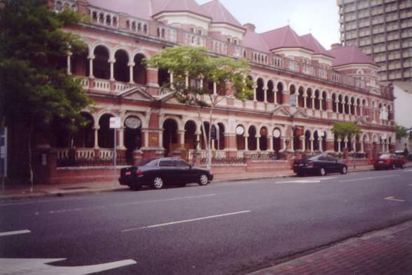 The Mansions, George Street, Brisbane ( this photograph was taken by Figaro )